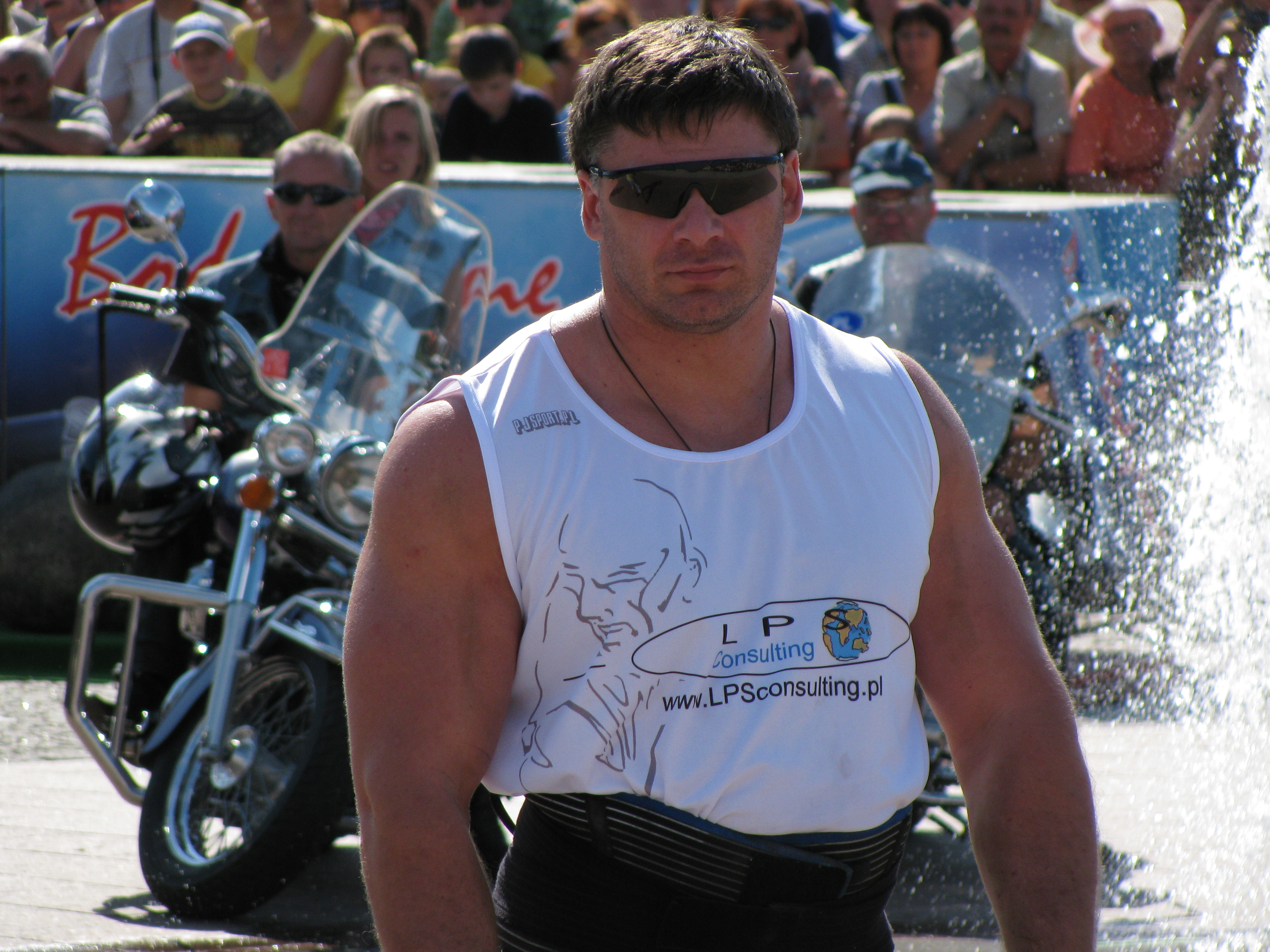 Rolands Gulbis - a strength athlete from Latvia